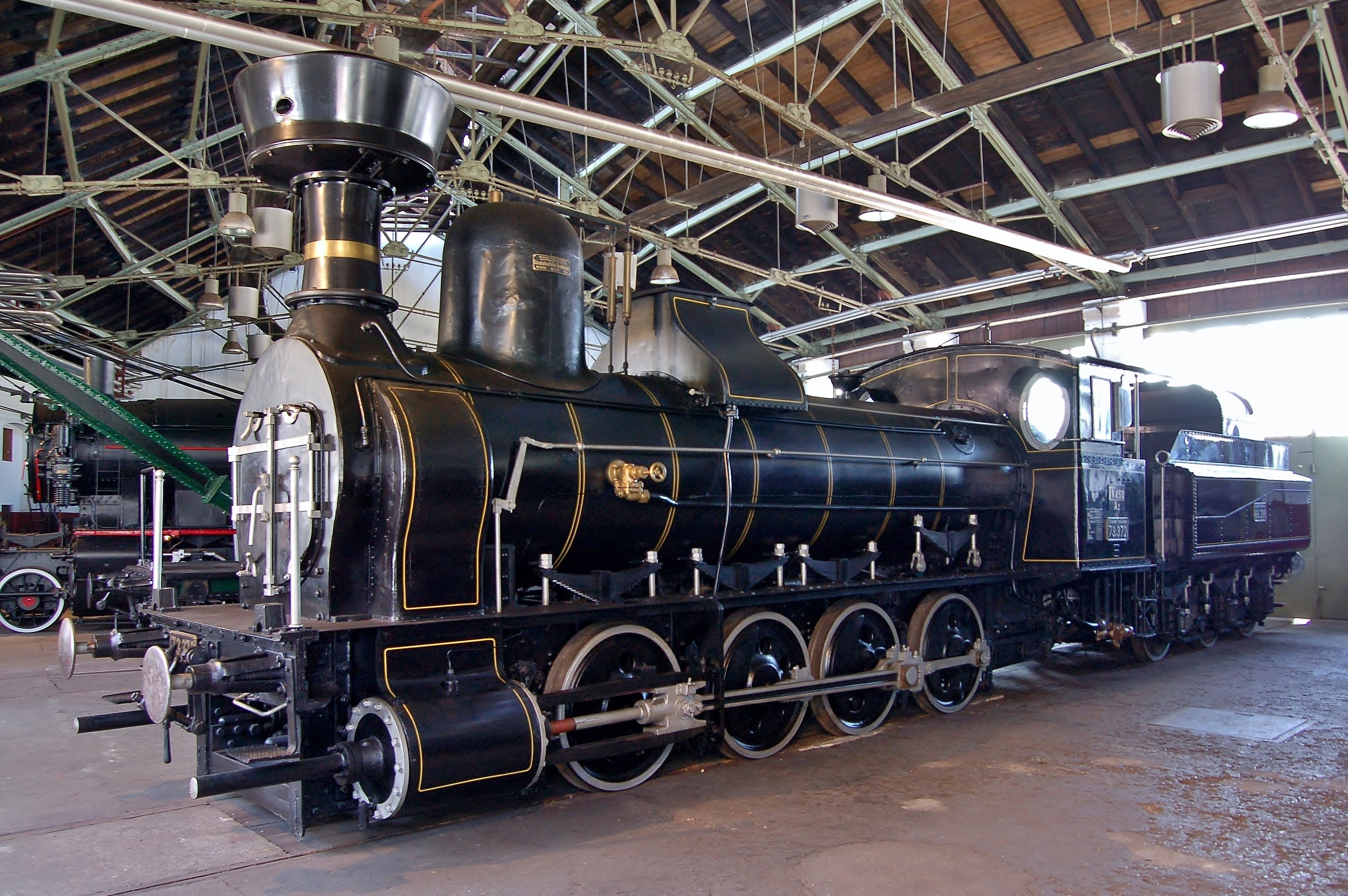 Ex-KkStB Class 73 0-8-0 goods locomotive 73.372 (later operated as JŽ 133-005), on display at the Railway Museum of Slovenian railways (also known as the Slovenian Railway Museum), Ljubljana, Slovenia.